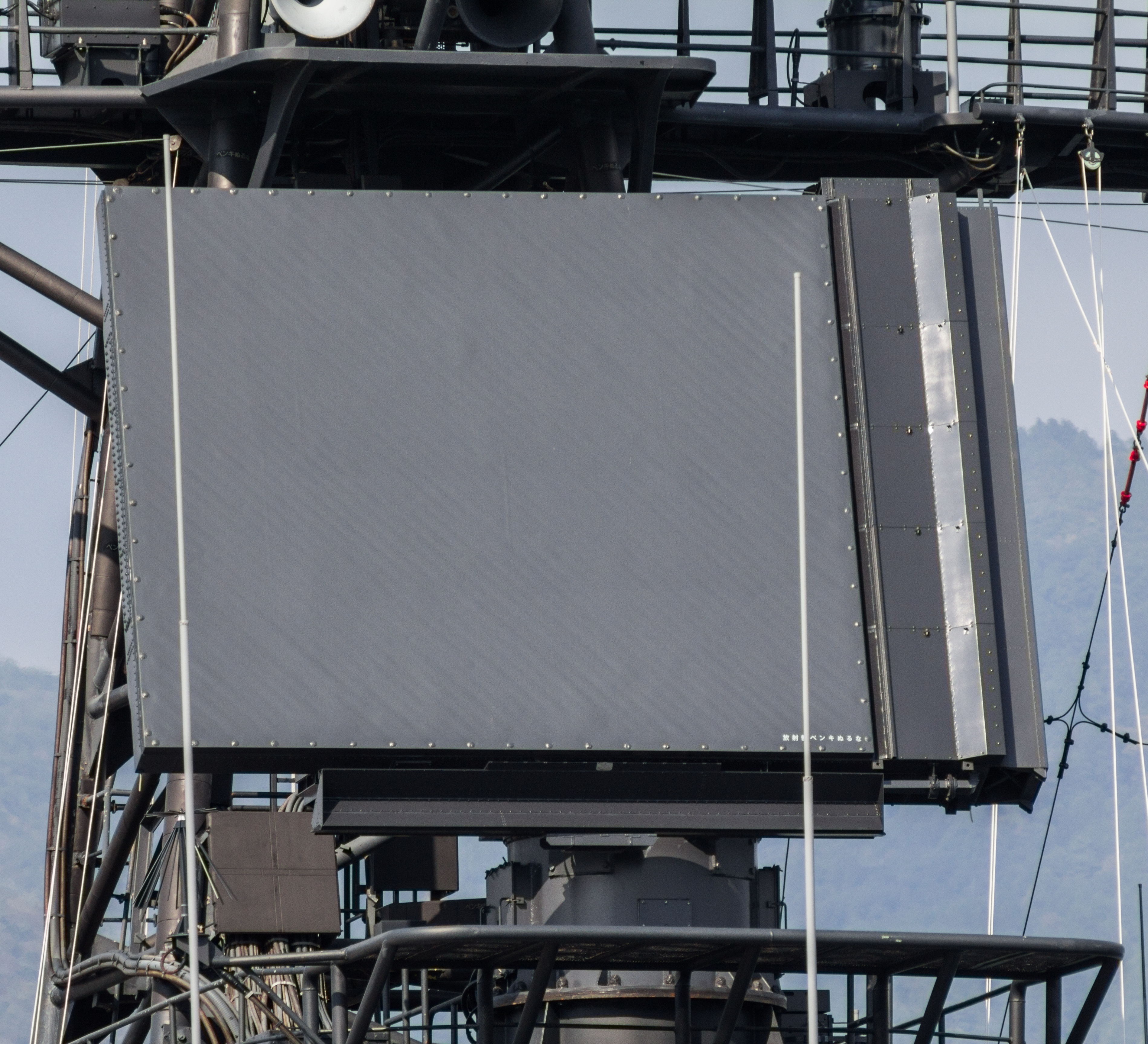 OPS-12 on JDS DDH-144 Kurama at Kobe (2013 Oct 27)